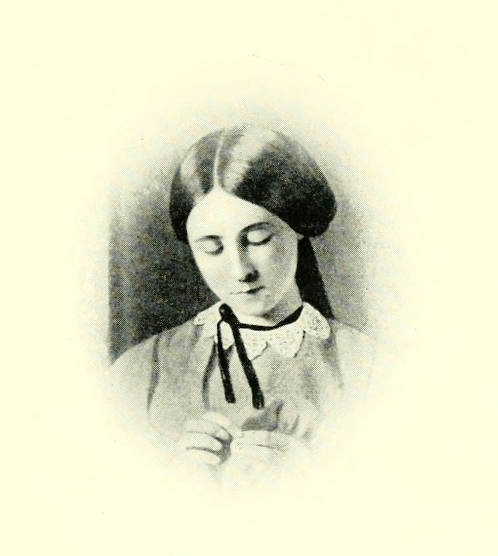 "The poet's wife."